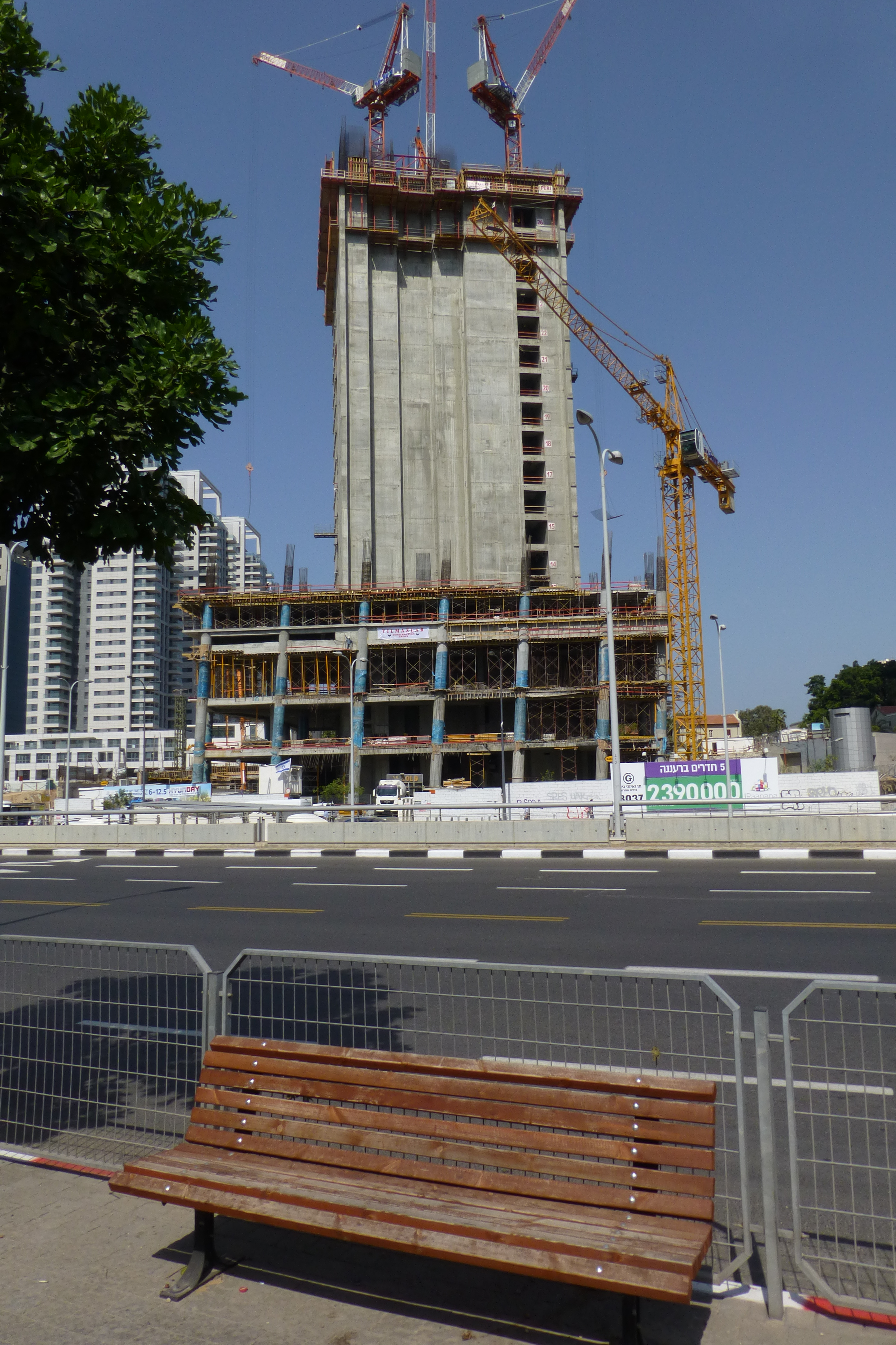 A2 (Israel)